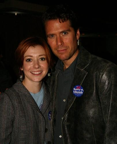 Alyson Hannigan & Alexis Denisof - Oct 2004